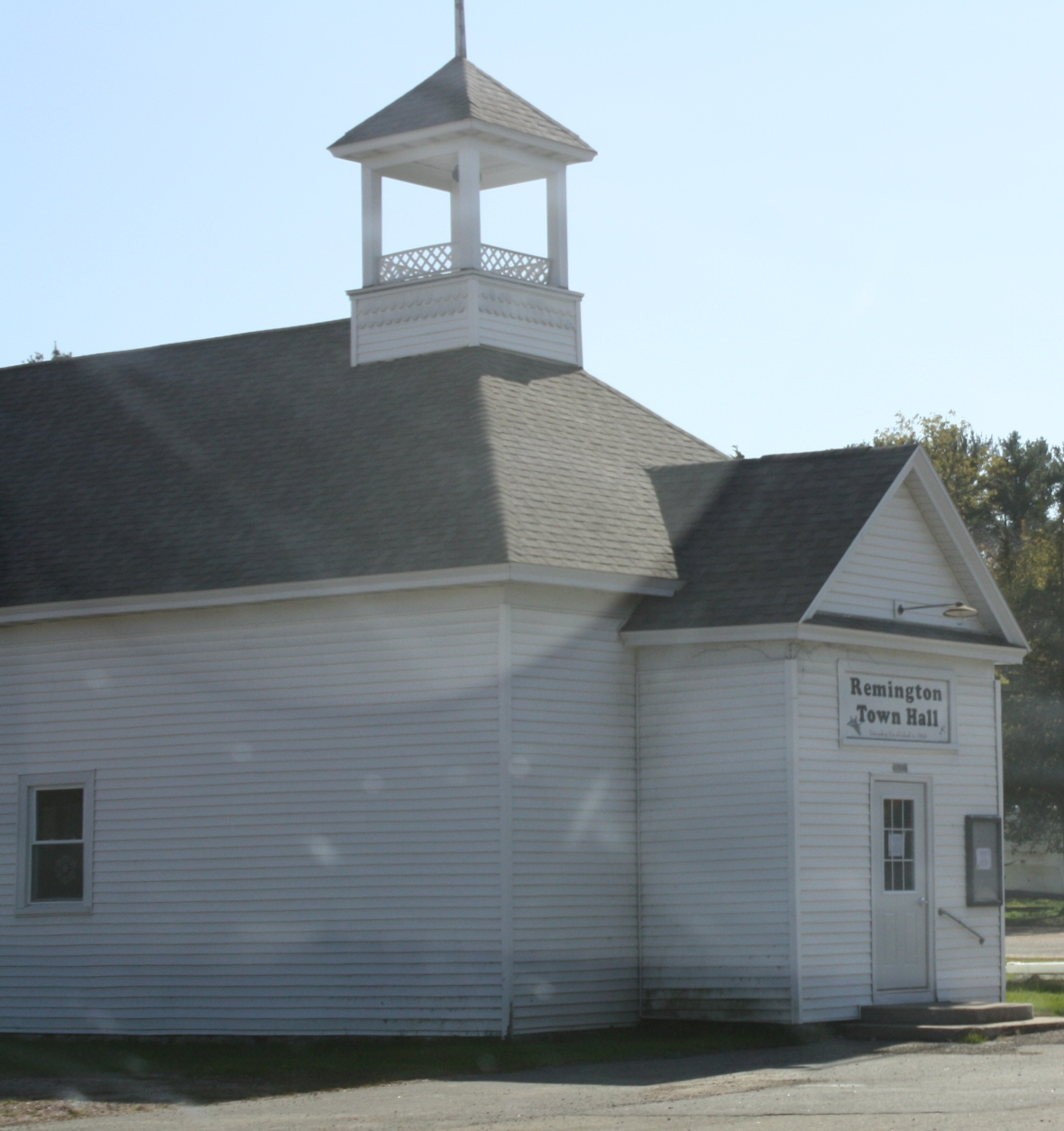 The town hall for Remington, Wisconsin.